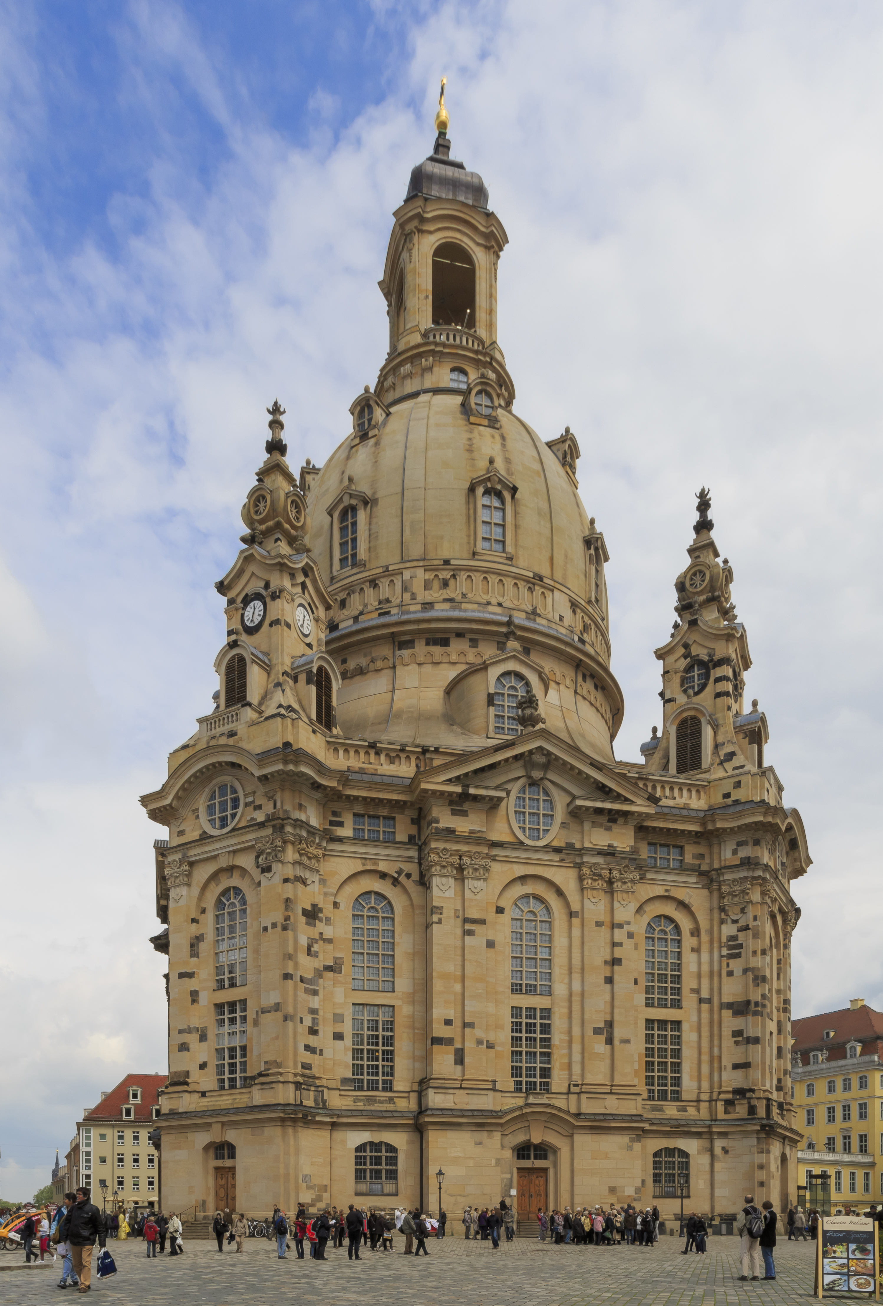 Dresden, Germany: Frauenkirche seen from Neumarkt Square